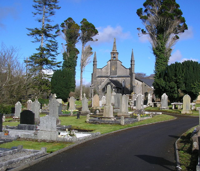 Church of Ireland, Laghey Co Donegal.